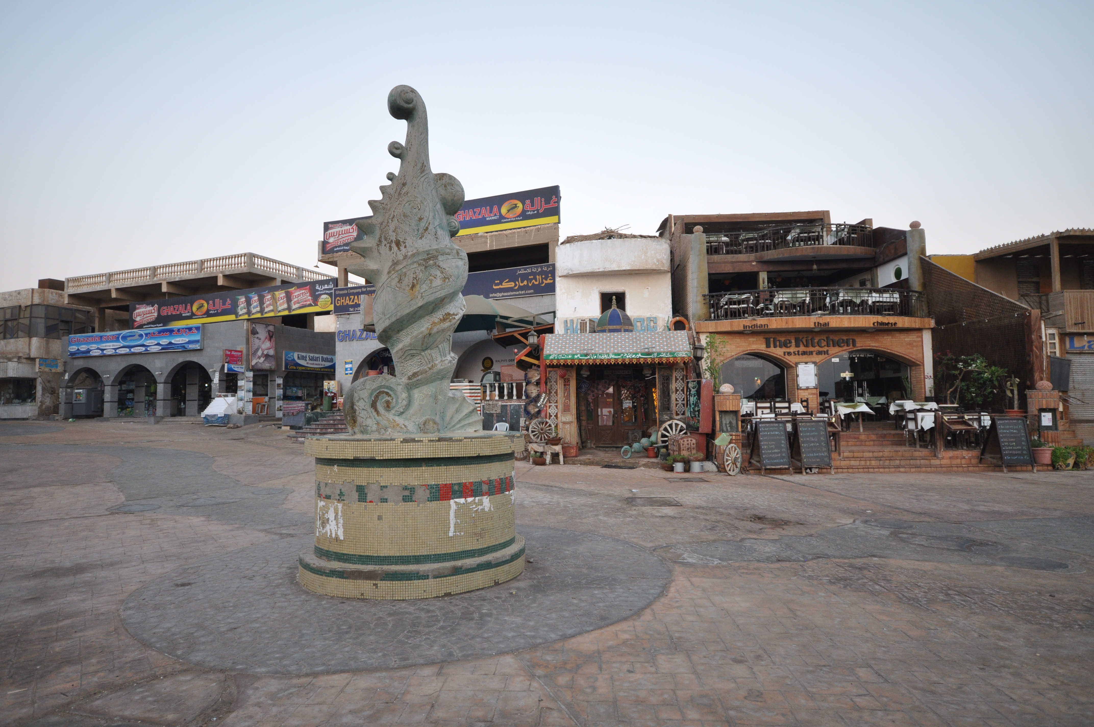 Dahab (Egyptian Arabic: دهب, "gold") is a small town situated on the southeast coast of the Sinai Peninsula in Egypt. Formerly a Bedouin fishing village, located approximately 80 km (50 mi) northeast of Sharm el-Sheikh, Dahab is considered to be one of the Sinai's most treasured diving destinations. Following the Six Day War, the town was occupied by Israel and was known in Hebrew as Di-Zahav; named after a place mentioned in the Bible as one of the stations for the Israelites during the Exodus from Egypt. The Sinai Peninsula was restored to Egyptian rule in the Israel-Egypt Peace Treaty in 1982. The arrival of international hotel chains and the establishment of other ancillary facilities has since made the town a popular destination with tourists. Dahab is served by Sharm el-Sheikh International Airport. Masbat (within Dahab) is a popular diving destination, and there are many (50+) dive centers located within Dahab. Dahab can be divided into three major parts. Masbat, which includes the bedouin village Asalah, is in the north. South of Masbat is Mashraba, which is more touristic and has considerably more hotels. In the southwest is Medina which includes the Laguna area, famous for its excellent shallow-water windsurfing